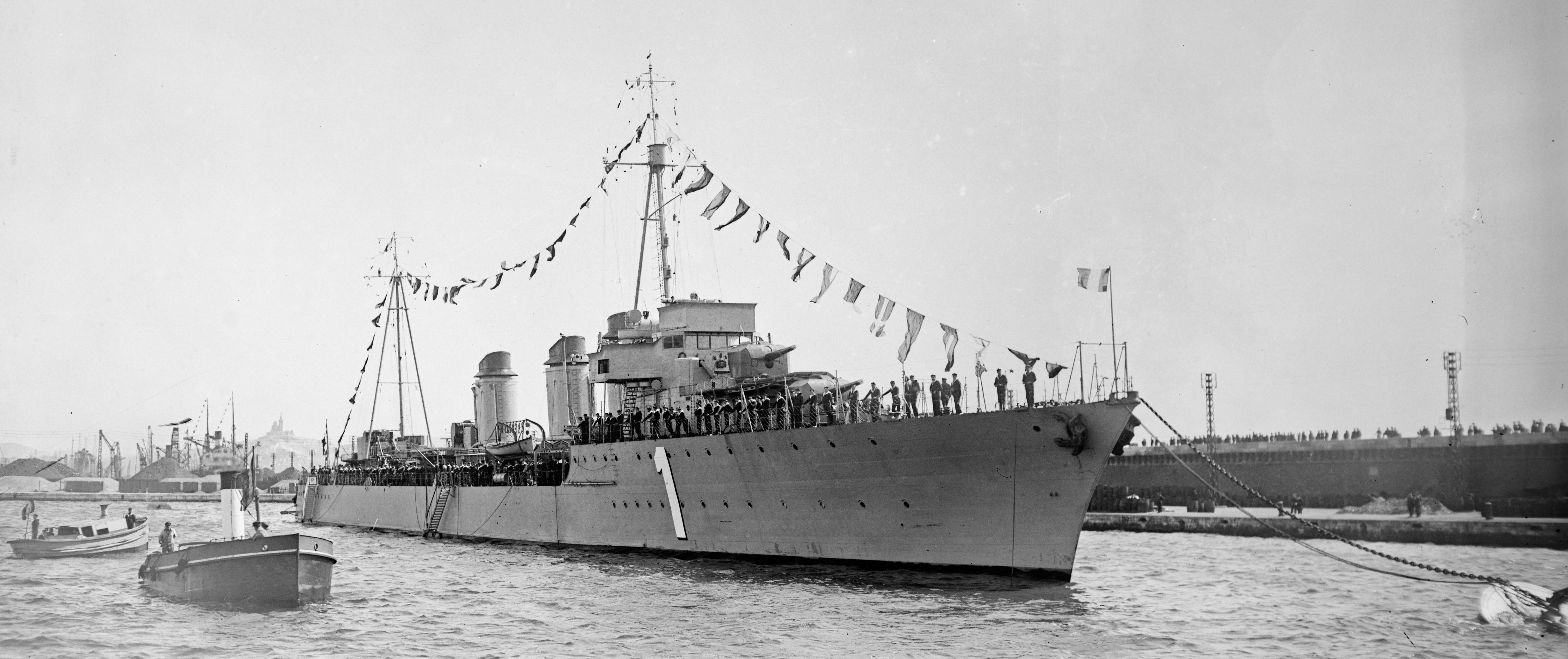 French destroyer Panthère at Marseille